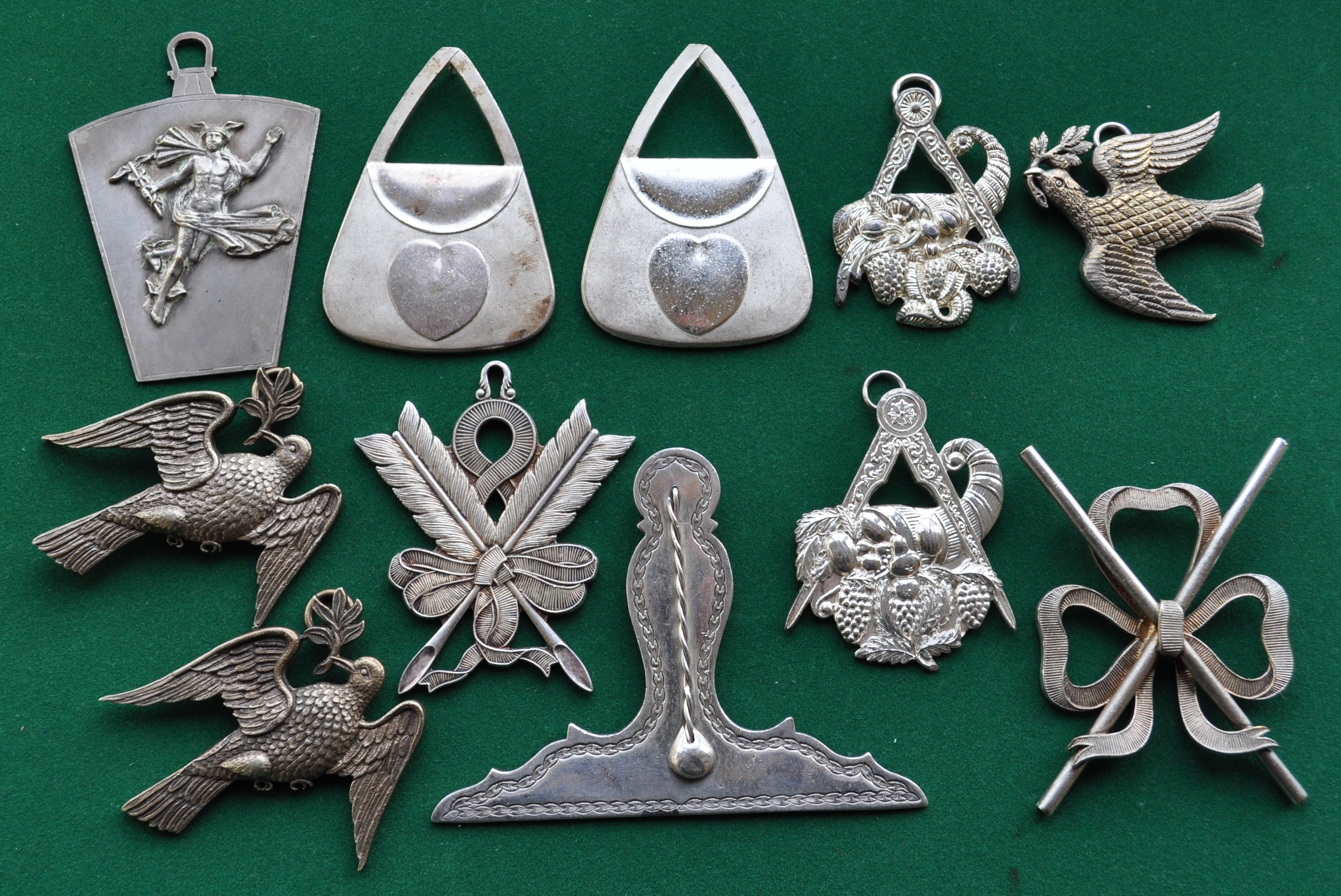 Masonic collar jewels